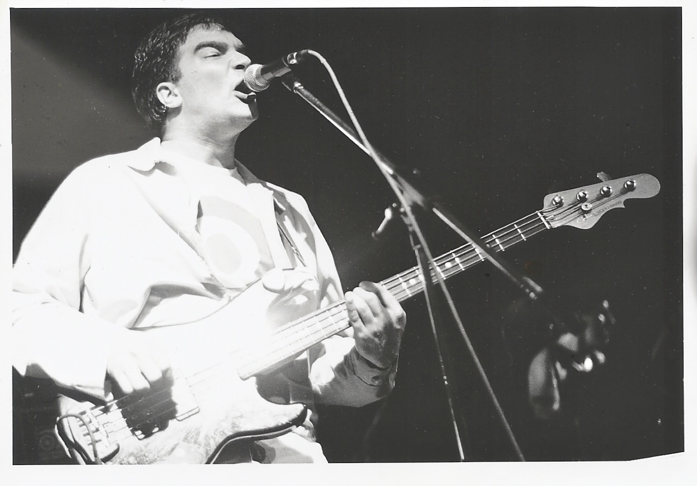 Halo of Flies. The Venue, London 1990 Early 90s American bands across England. Neate photos facebook page. More neate photos.